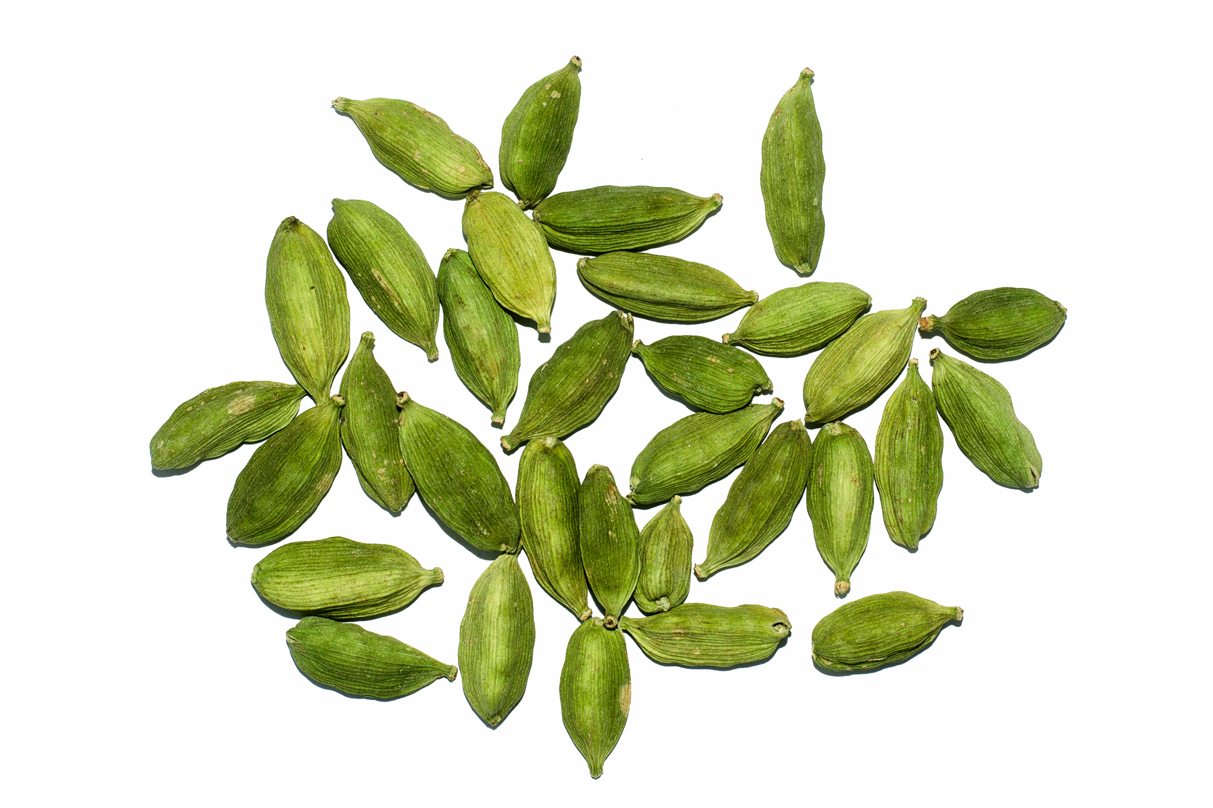 Cardamom pods - Green